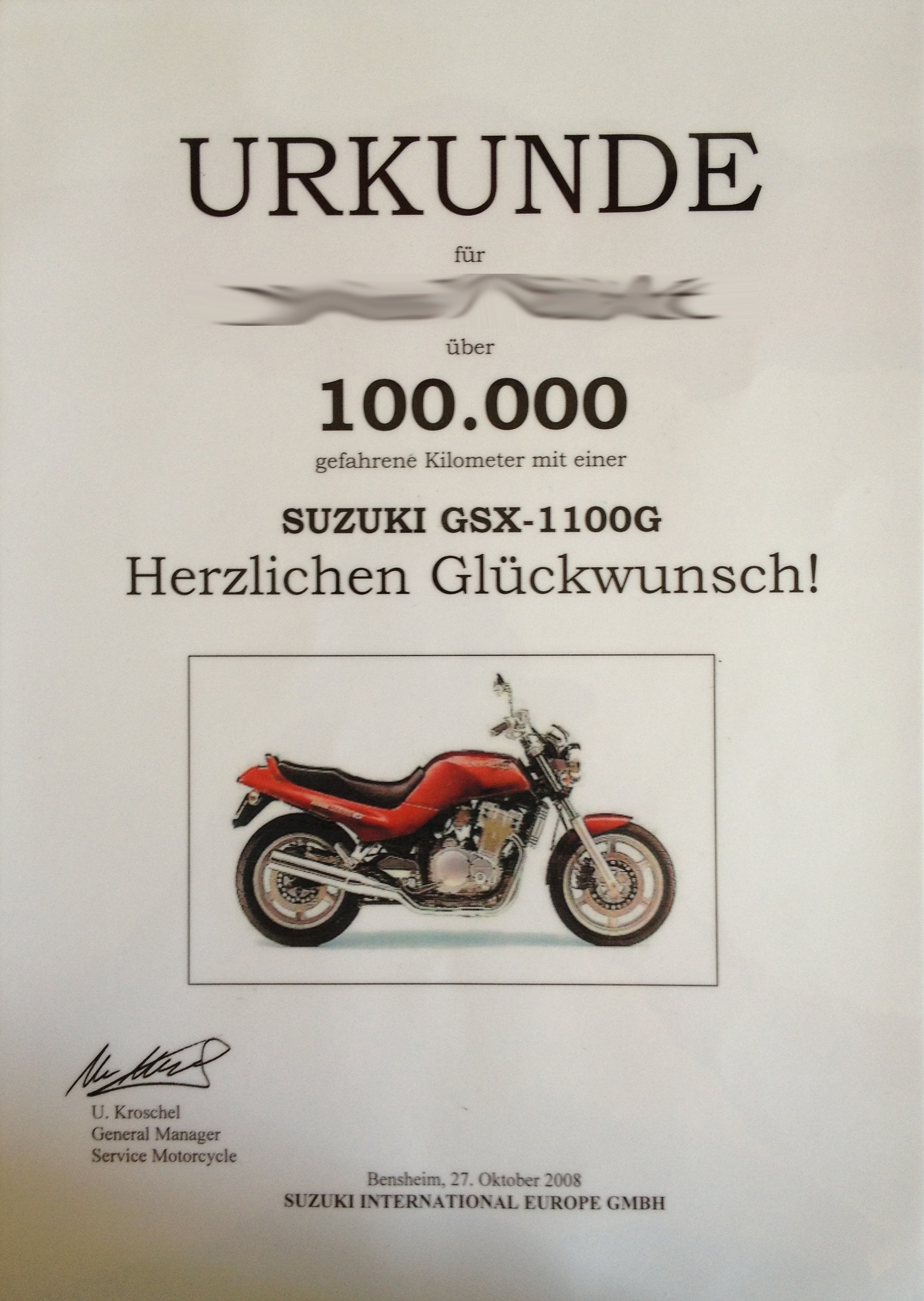 Special certificate from "SUZUKI INTERNATIONAL EUROPE GMBH" for a kilometer-reading of more than 100,000km in 2008 by first owner.